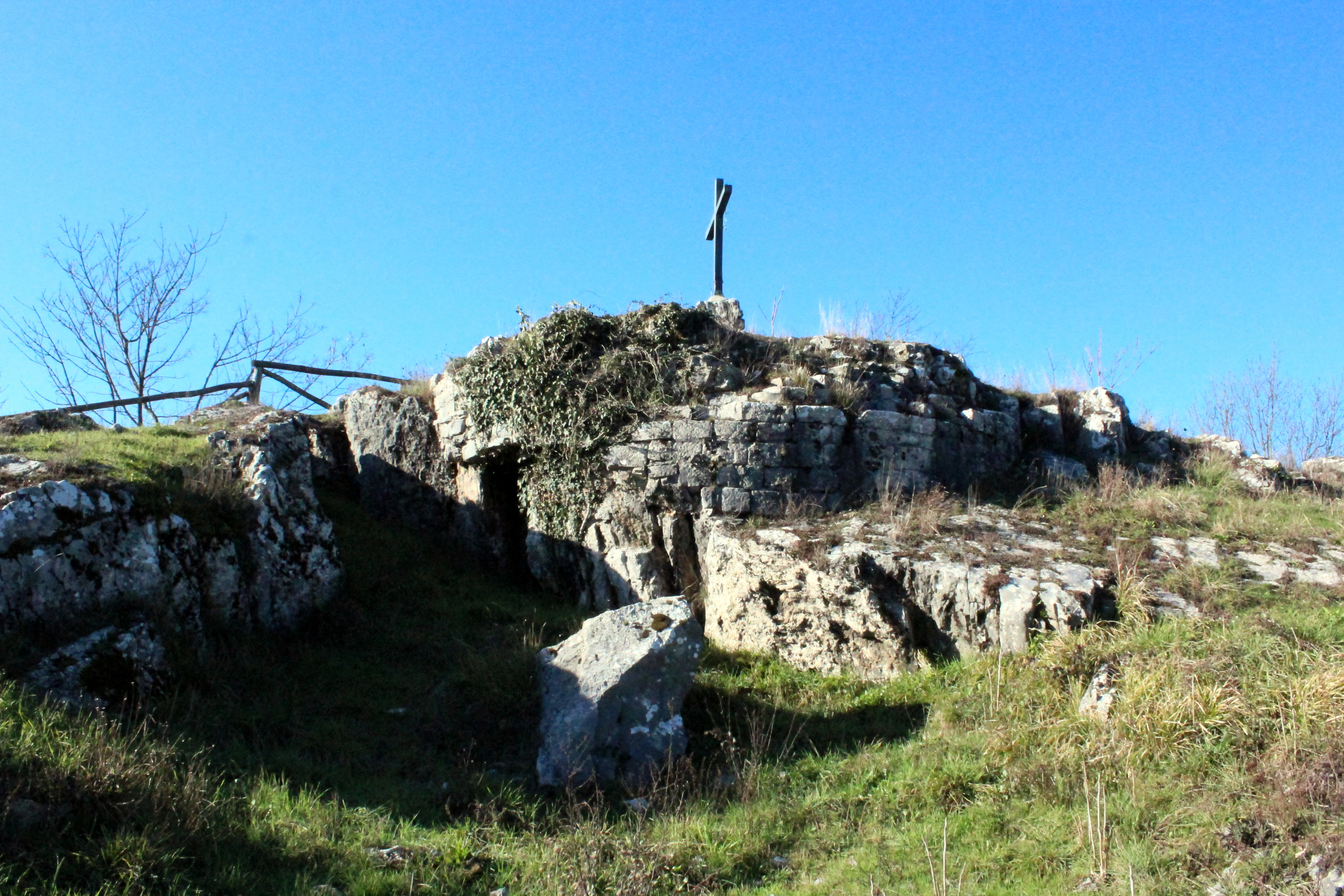 Castle Ruin of the Rocca di Mozzano in Rocca, hamlet of Borgo a Mozzano, Province of Lucca, Tuscany, Italy